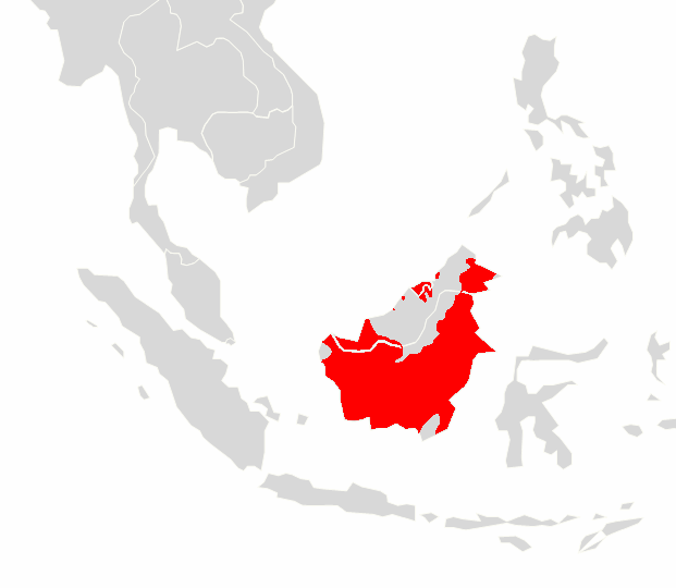 Proboscis monkey (Nasalis larvatus), range map, depending on the range map at IUCN red list